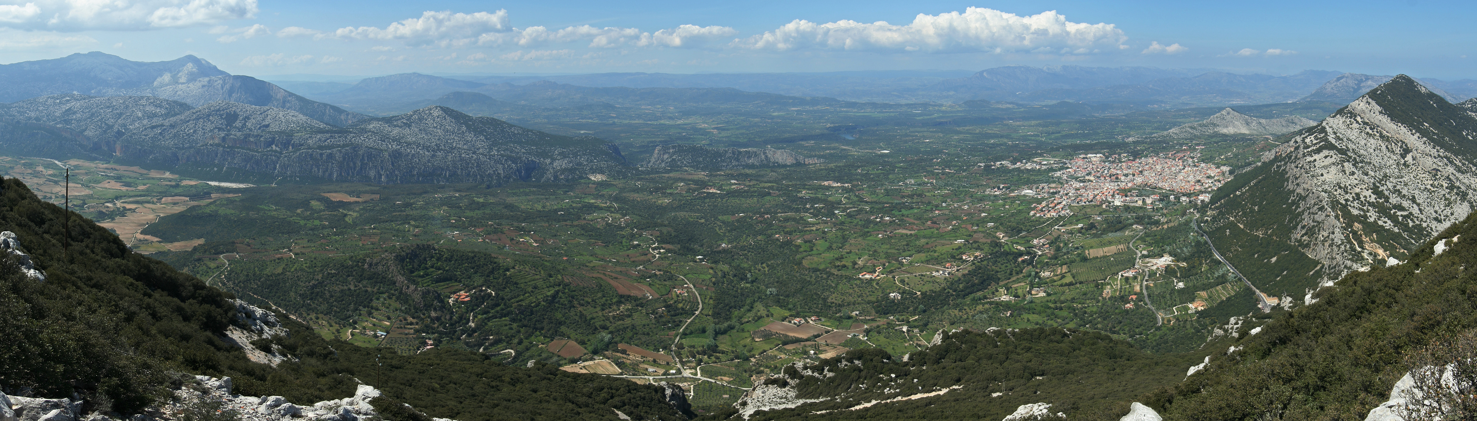 View from Monte Tului to the Supramonte, Lago del Cedrino, Monte Albo, Dorgali (left to right) This panoramic image was created with Autostitch. Stitched images may differ from reality.